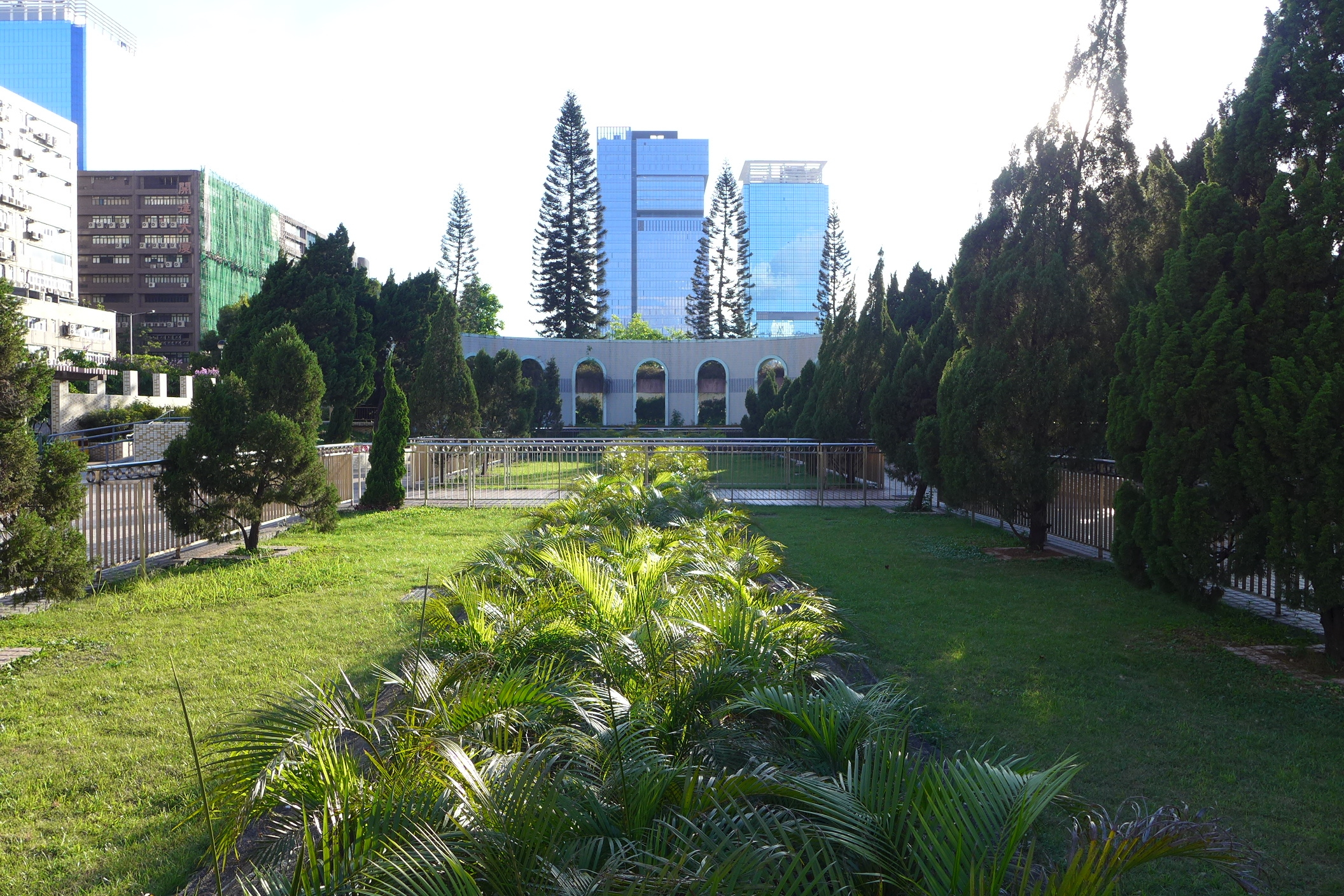 Kowloon Bay Park Phase 1 Abandoned Fountain